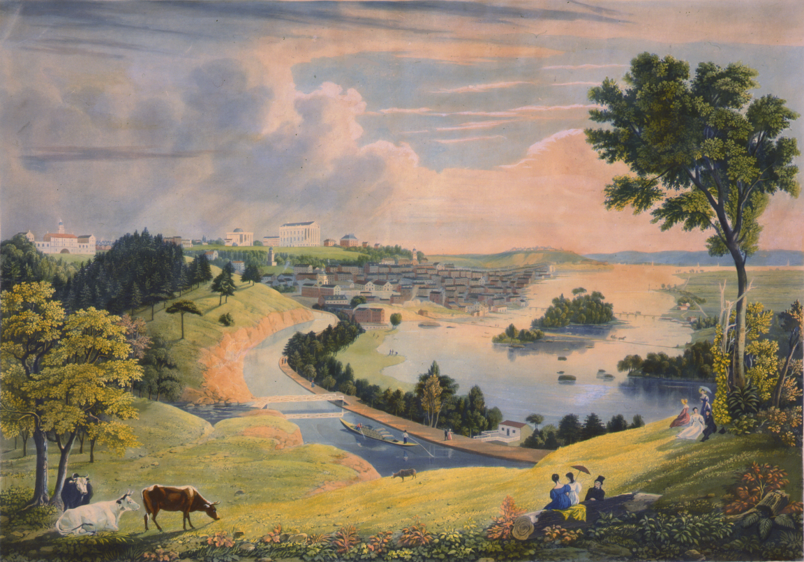 "Richmond, from the hill above the waterworks"; engraved by W.J. Bennett from a painting by G. Cooke; Published by Lewis P. Clover (New York)